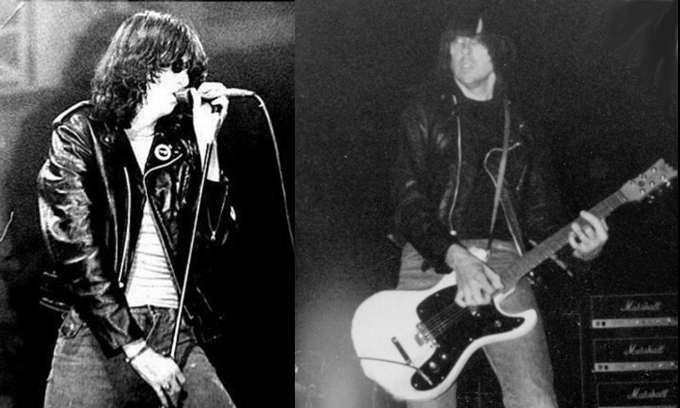 Joey Ramone and Johnny Ramone.